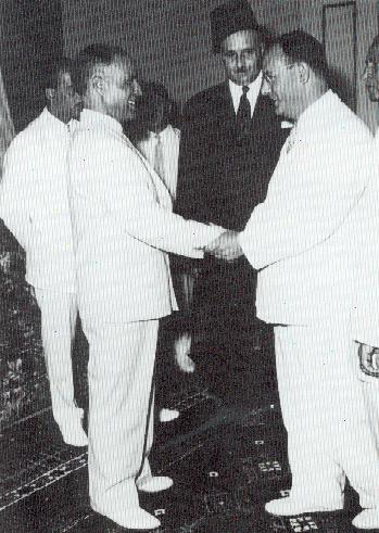 Habib Bourguiba (left) avec Charles Haddad (right) et Ahmed Zaouche